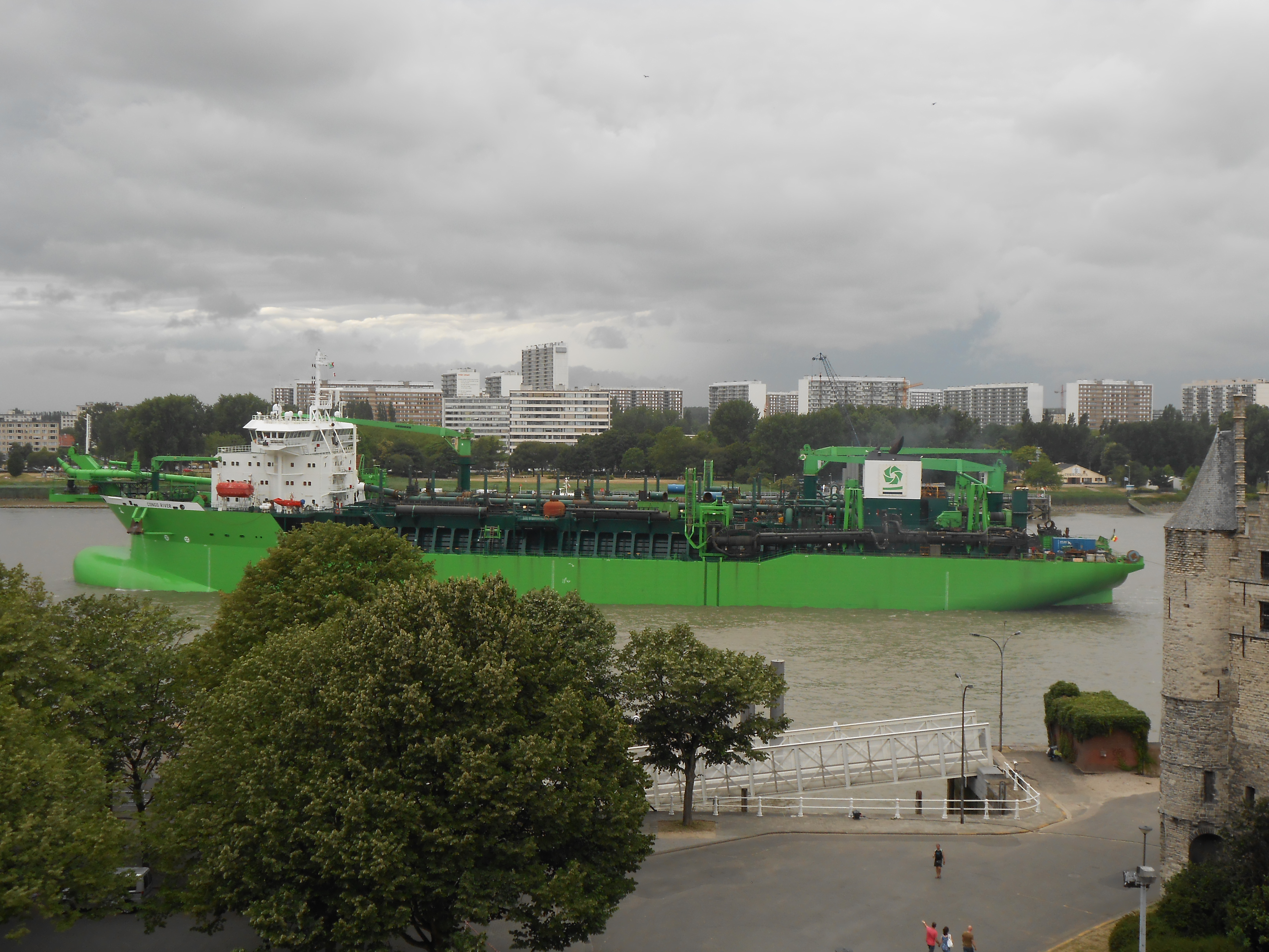 Congo River dredger arriving at Steen, Antwerp, ahead of start 3rd leg Tour de France, July 6, 2015